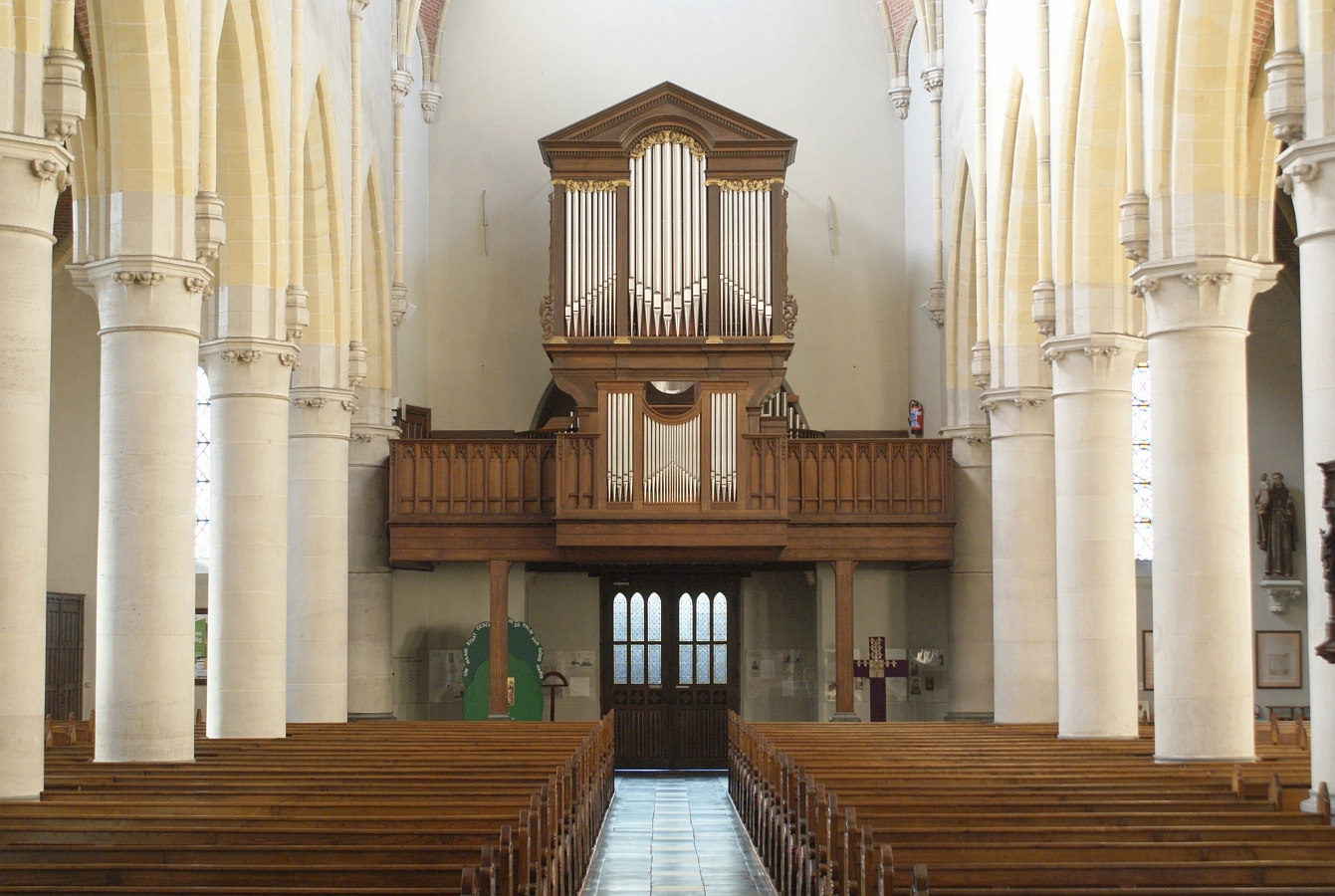 Oldest existing organ created by Arnold Clerinx (°1816 †1898) in the church of Sint-Pietersbanden in Lommel